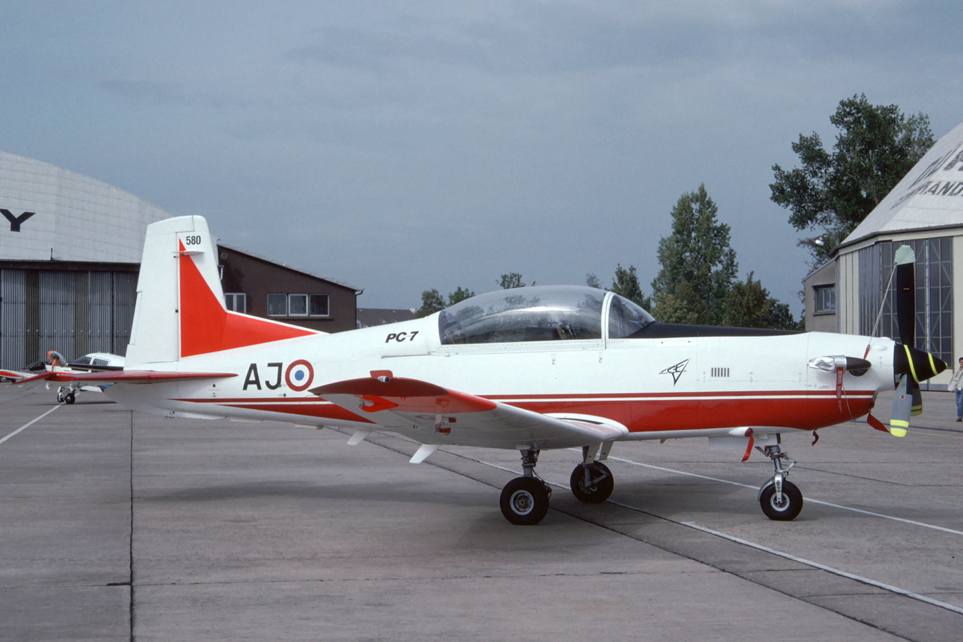 One of six PC-7s that were in use with the French test pilot school. Brétigny sur Orge, 27 September 1992.